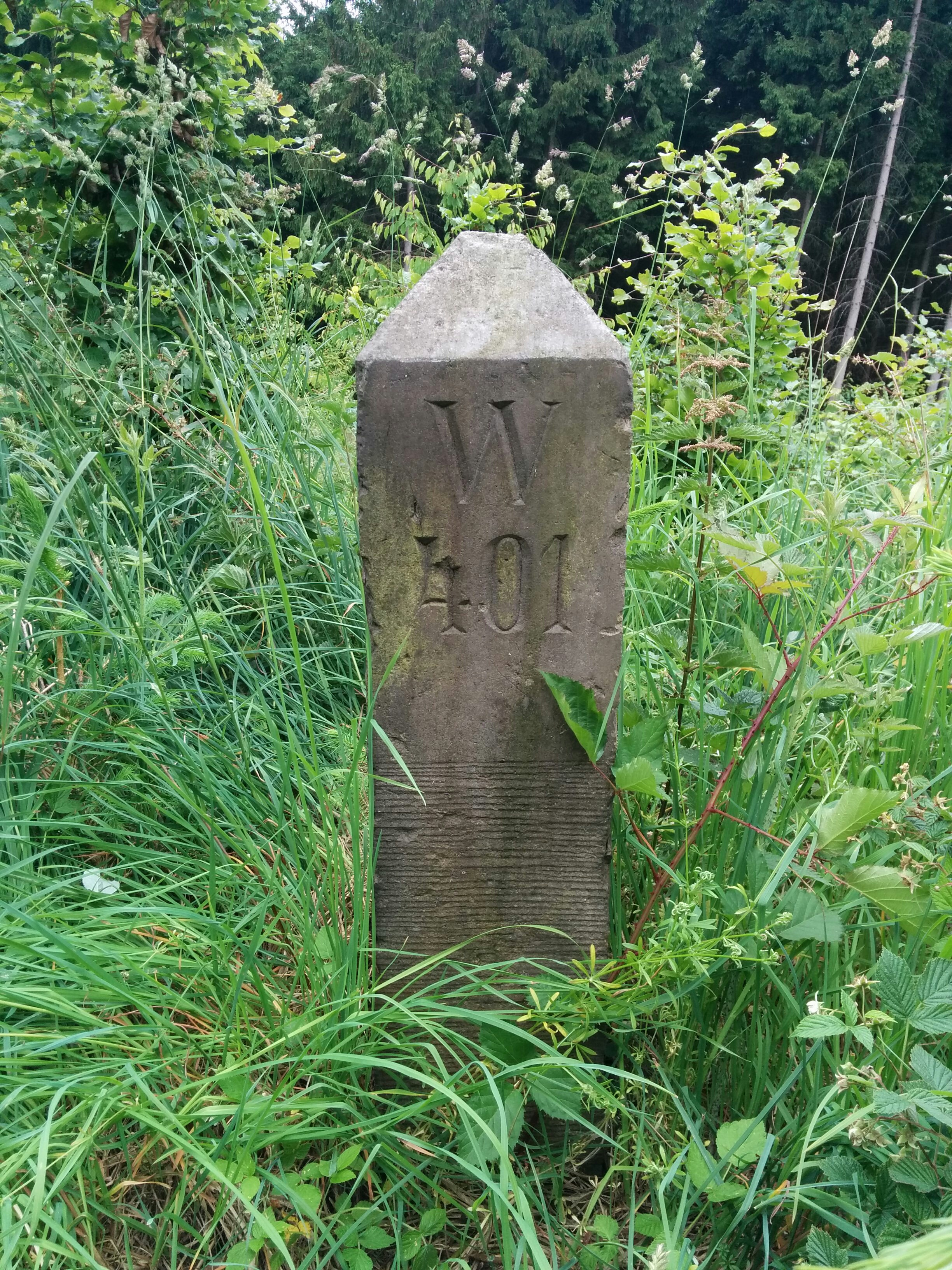 Boundary stone at former border between Kingdom of Prussia and Kingdom of Hannover near Gehle near Nonnenstein mountain in Rödinghausen, District of Herford, North Rhine-Westphalia, Germany.